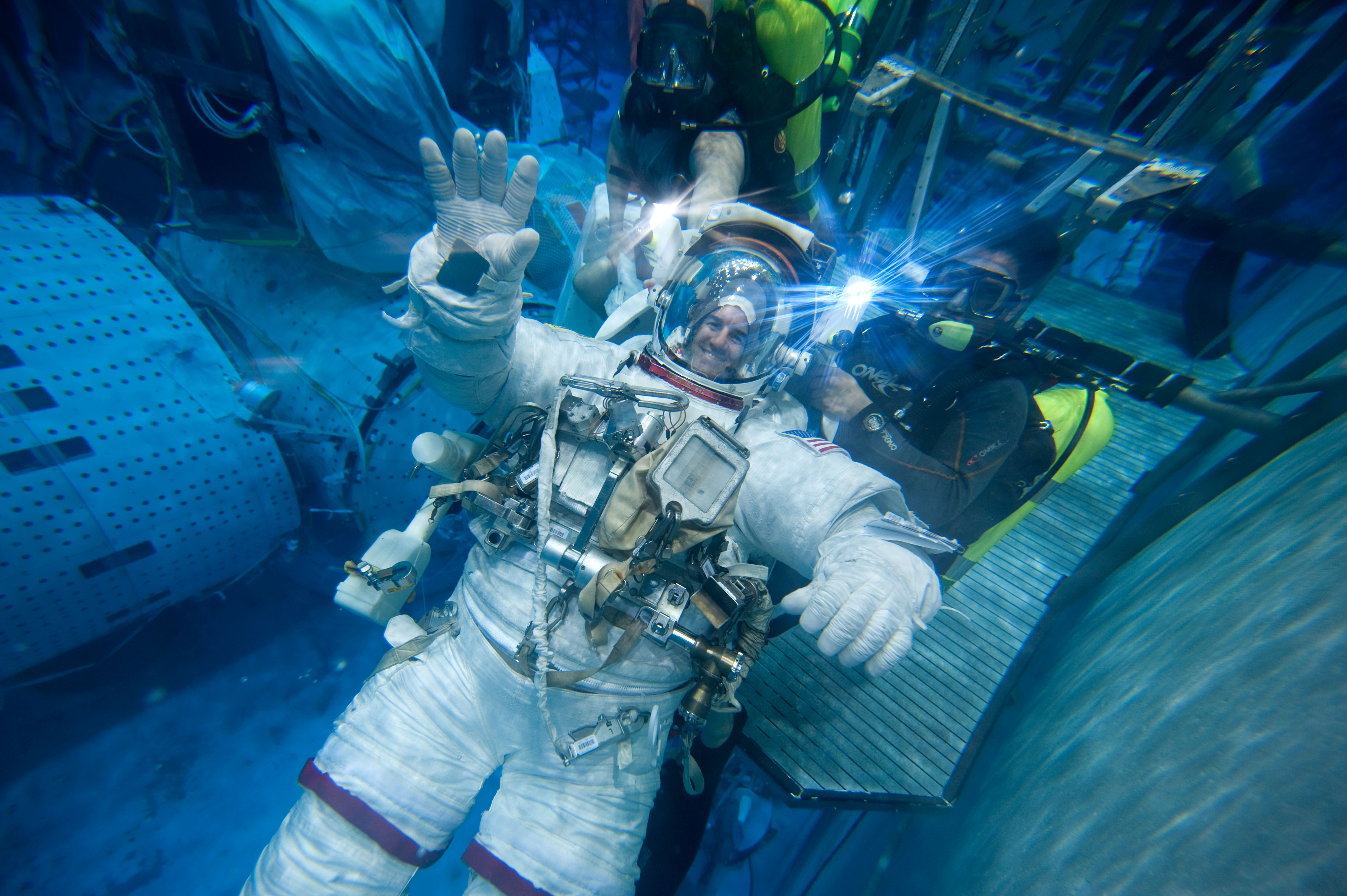 Attired in a training version of his Extravehicular Mobility Unit (EMU) spacesuit, NASA astronaut Rex Walheim, STS-135 mission specialist, participates in a spacewalk training session in the waters of the Neutral Buoyancy Laboratory (NBL) near NASA's Johnson Space Center. Divers are in the water to assist Walheim in his rehearsal, which is intended to help prepare him for work on the exterior of the International Space Station. STS-135 is planned to be the final mission of the space shuttle program.